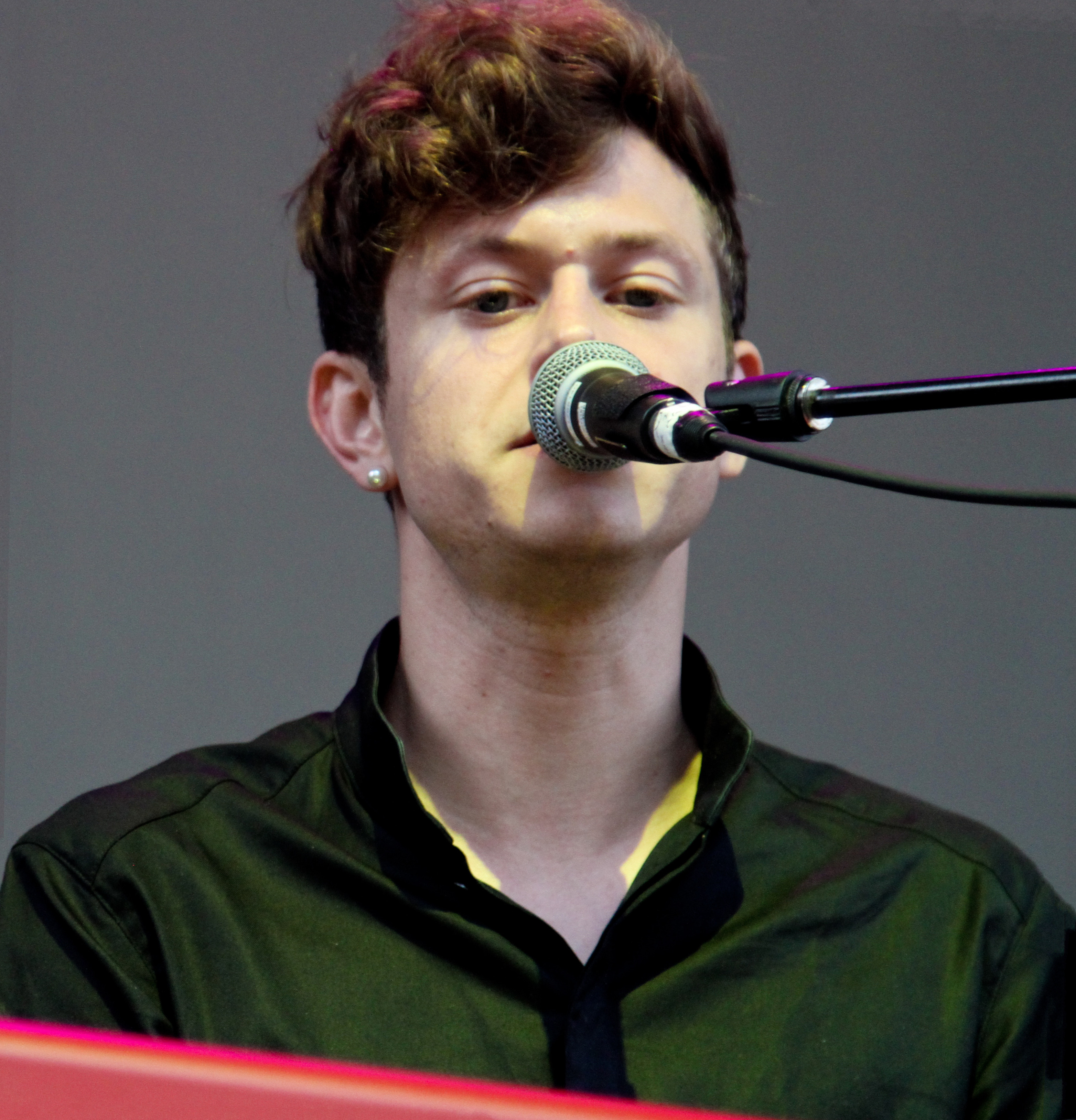 Perfume Genius Performing at the Prospect Park Bandshell in Brooklyn, NYC